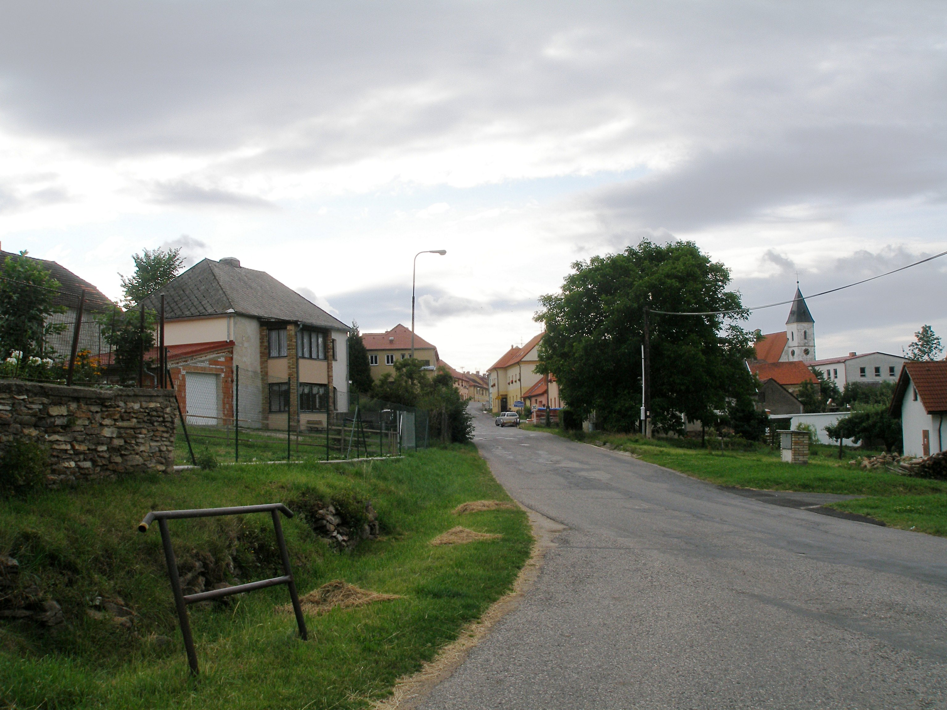 The western part of Ktiš from the west